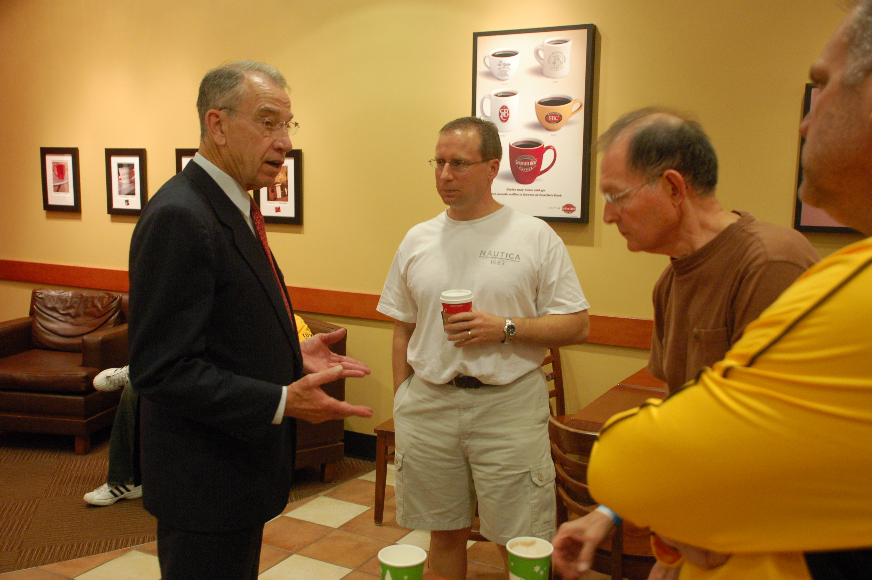 Sen. Grassley talks about health care with Huckabee supporters.